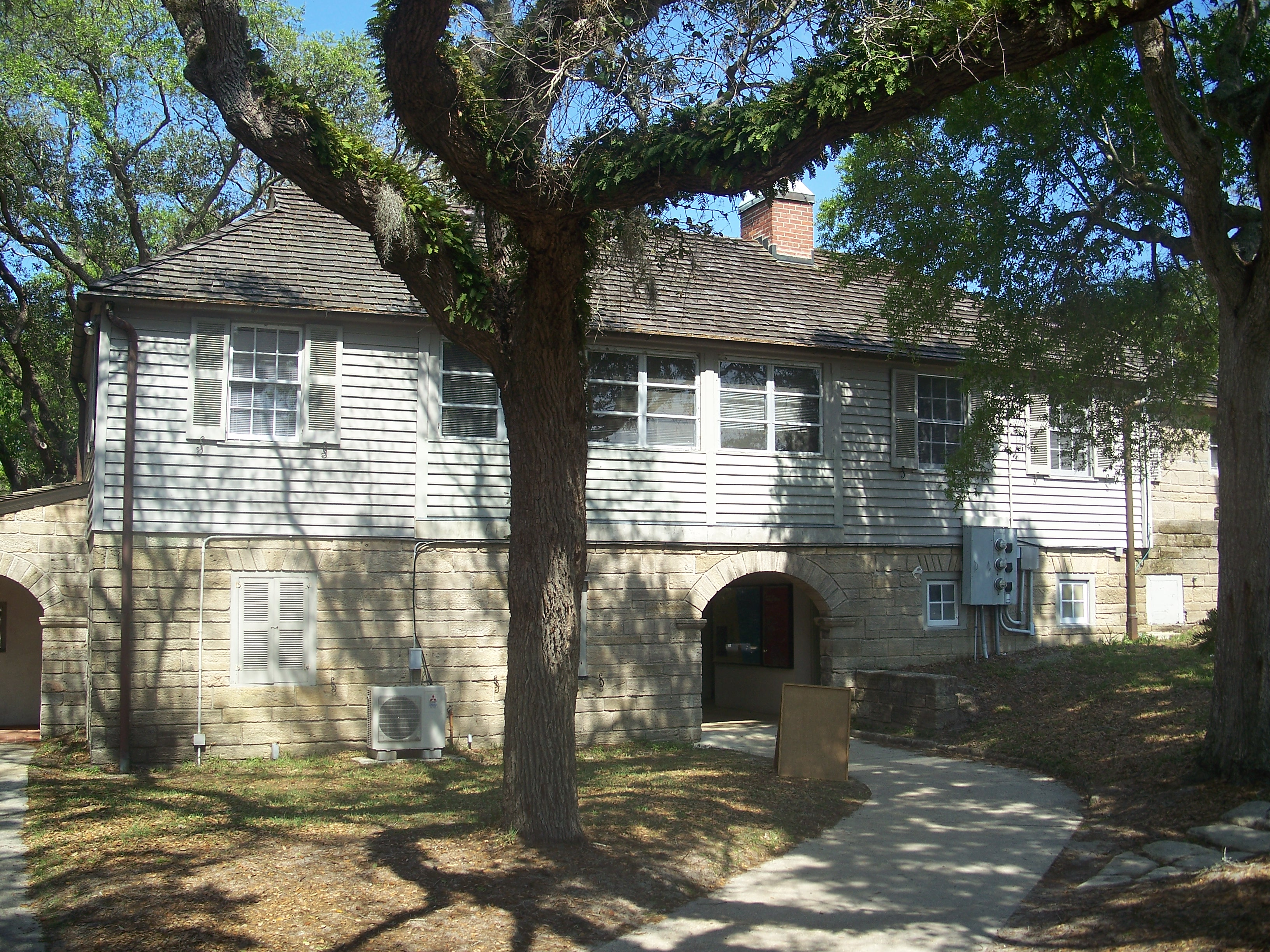 Visitor center at Fort Matanzas, near Crescent Beach, Florida